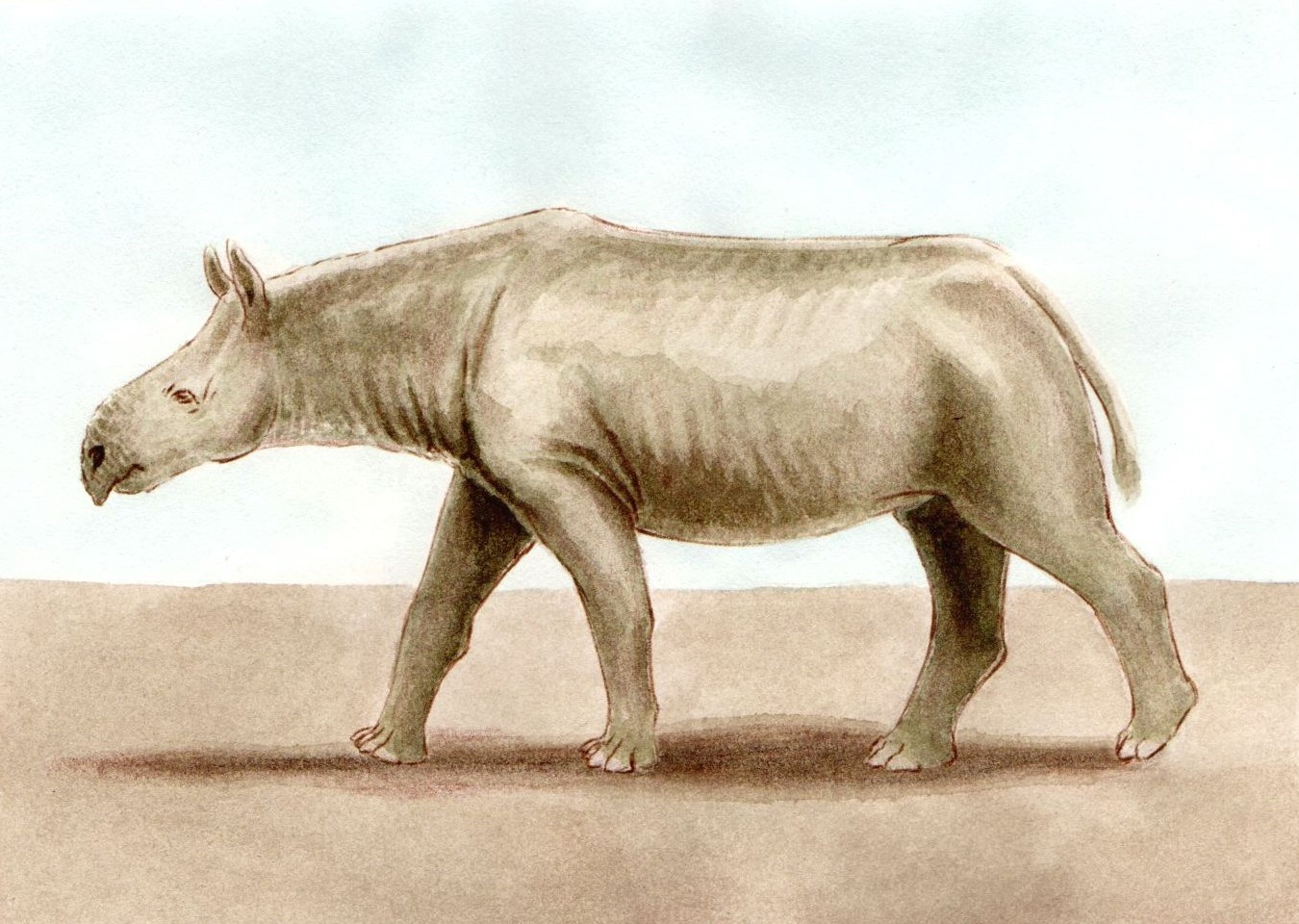 A recreation of the extinct mammal Ronzotherium